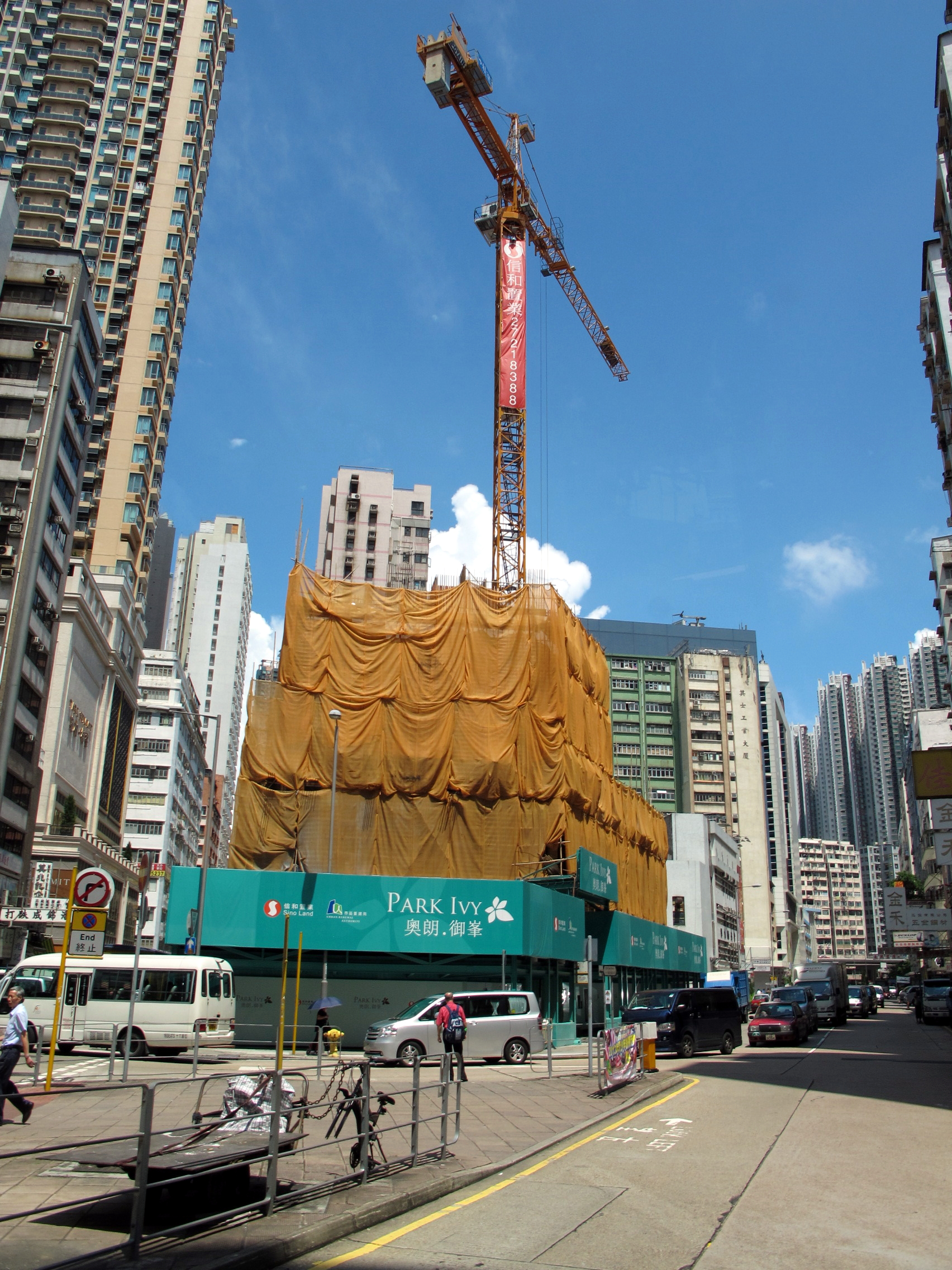 Park Ivy Construction Site 奧朗·御峯